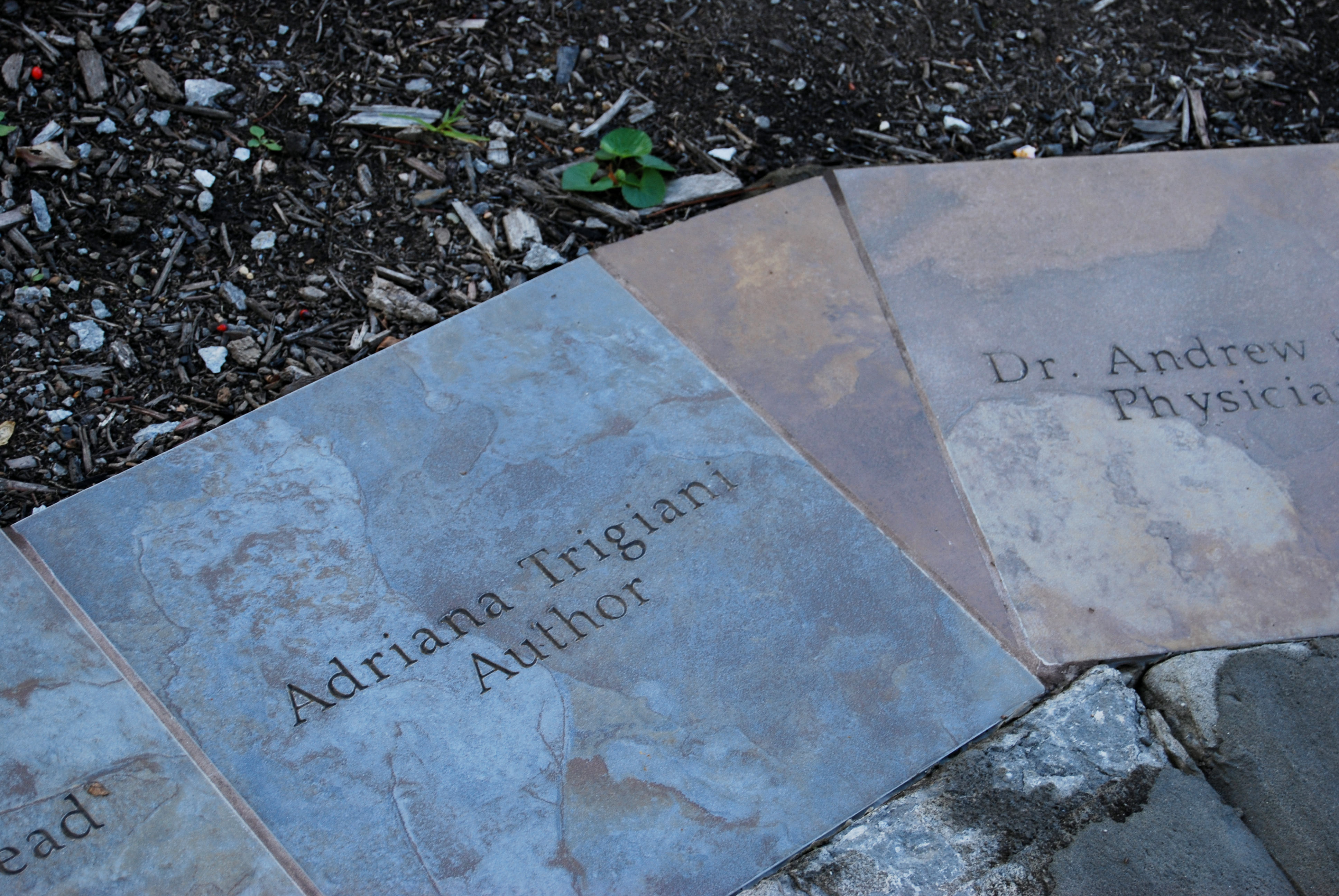 Learn more about Southwest Virginia Museum State Park in Big Stone Gap, Va here